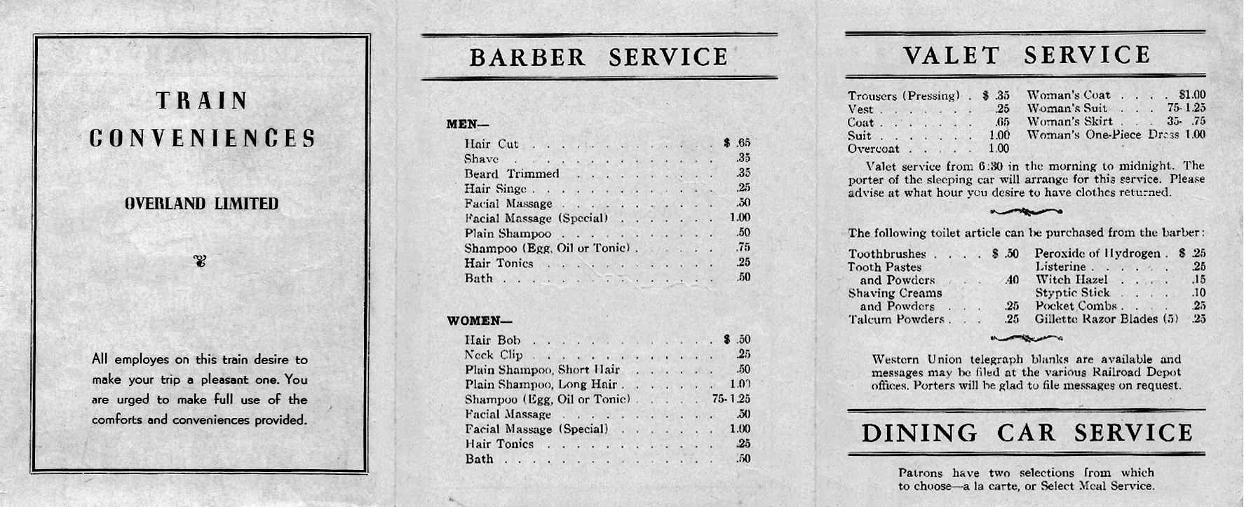 Overland Limited passenger services (c1920) New!